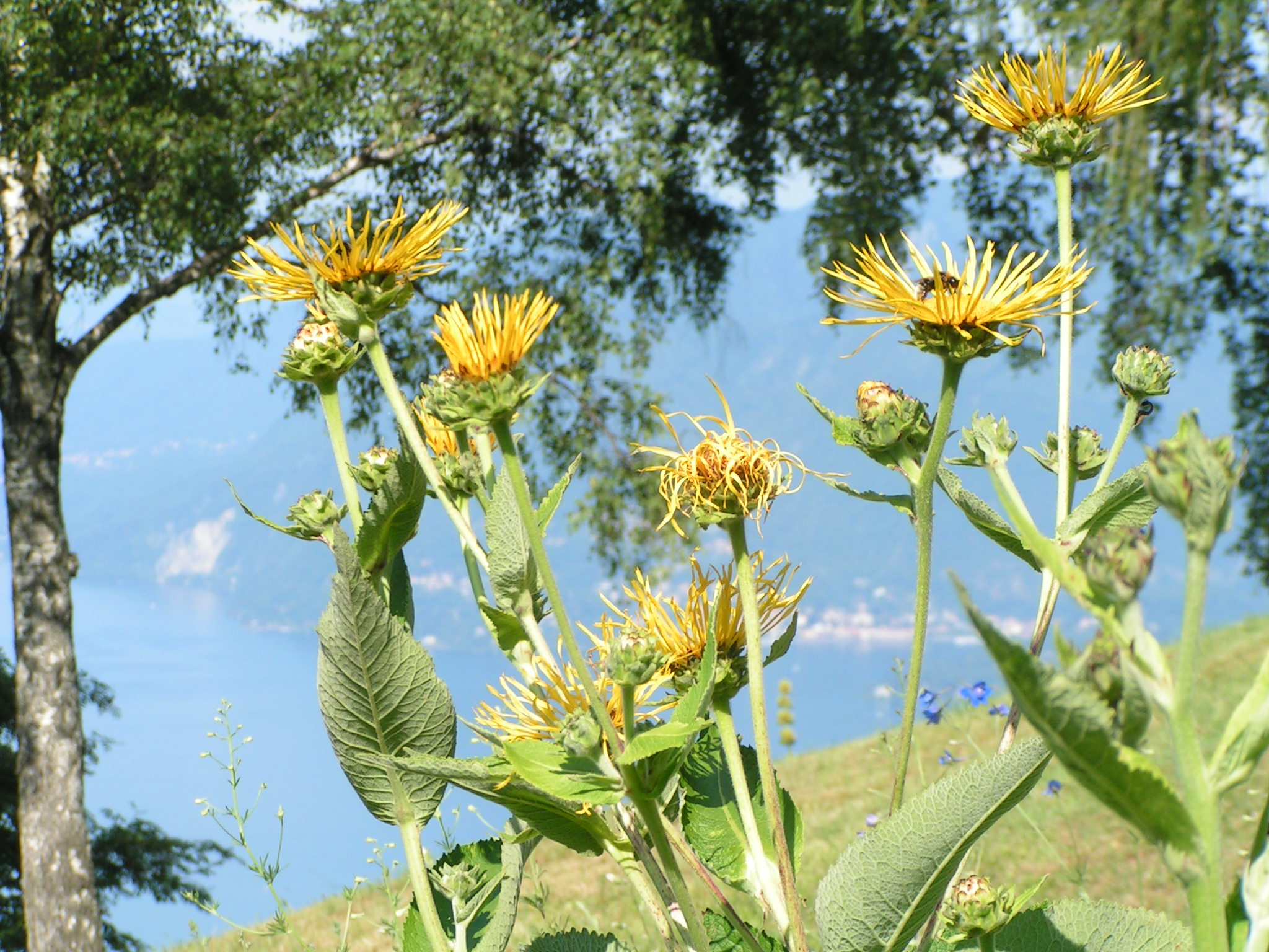 Botanic Garden in Alpino (Community of Stresa). In the background Lago Maggiore and Verbania